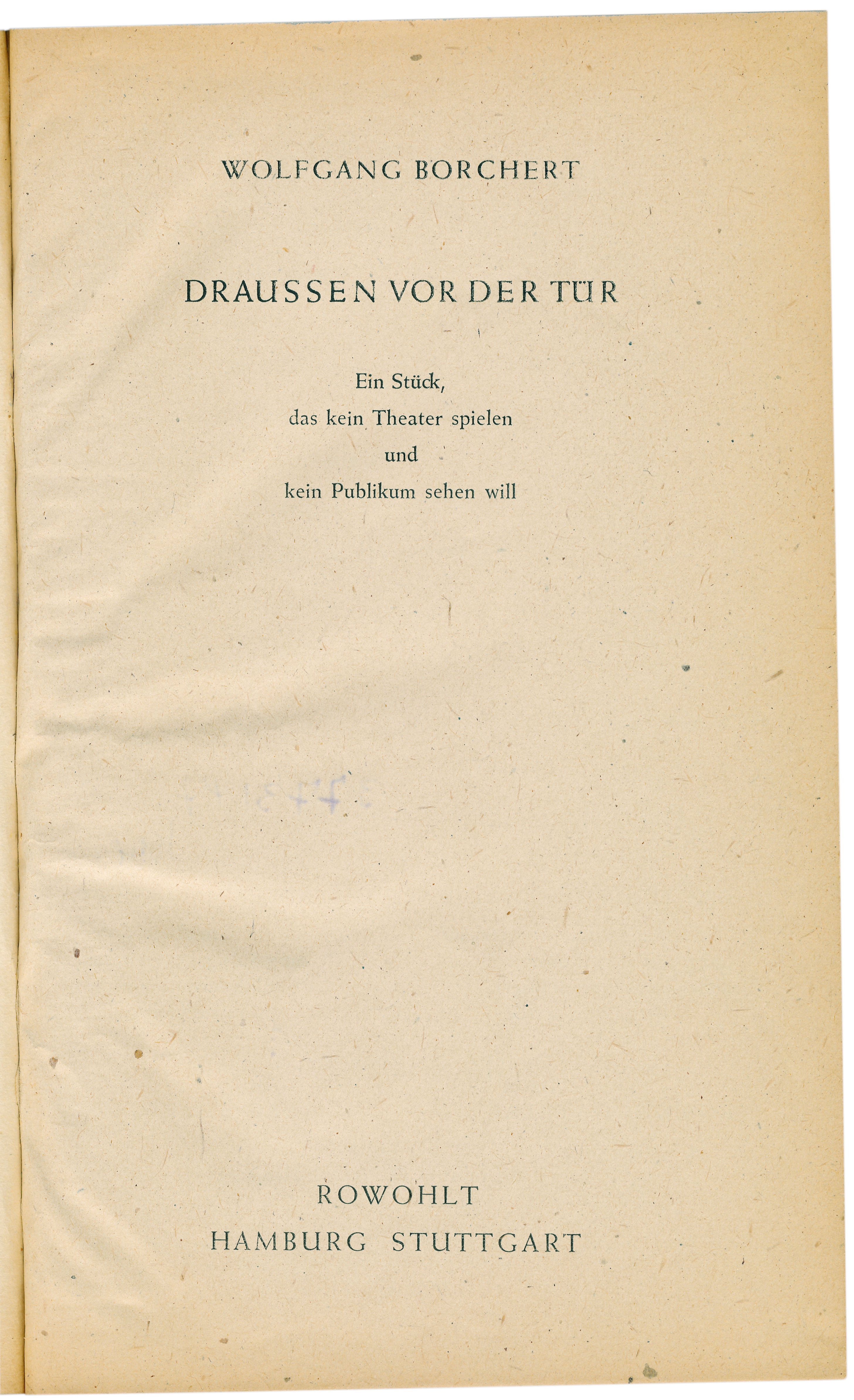 Title page of the first print of Wolfgang Borchert’s play Draußen vor der Tür (in English, “The Man Outside”), published in July 1947 by the Rowohlt Verlag, Hamburg and Stuttgart as “stage script, not for sale”. A second edition that was obtainable at the bookseller’s was printed in May 1948. Hint: The irregular shape of the leaf is due to irregular cropping by the bookbinder.